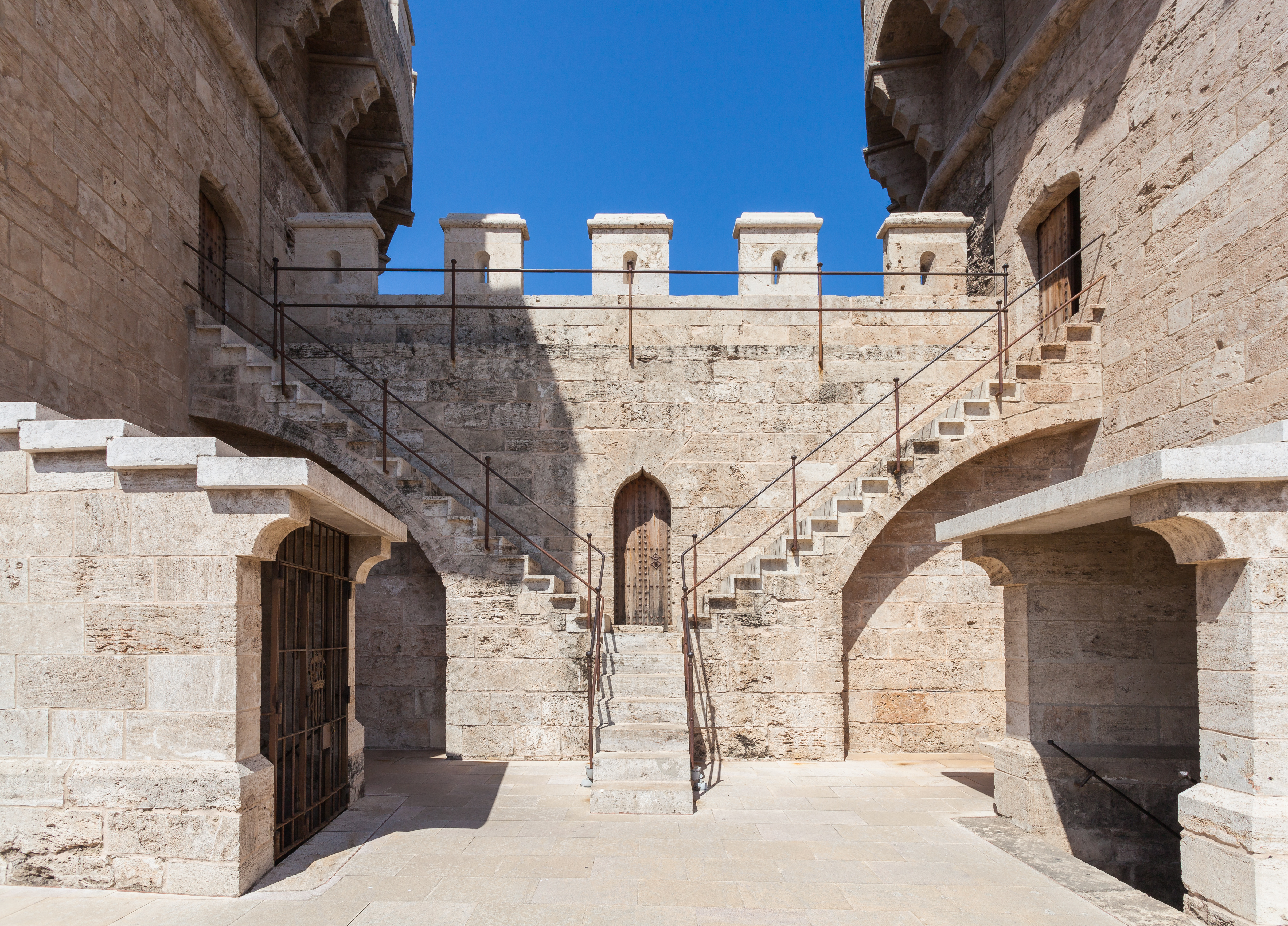 Cuart Towers, Valencia, Spain